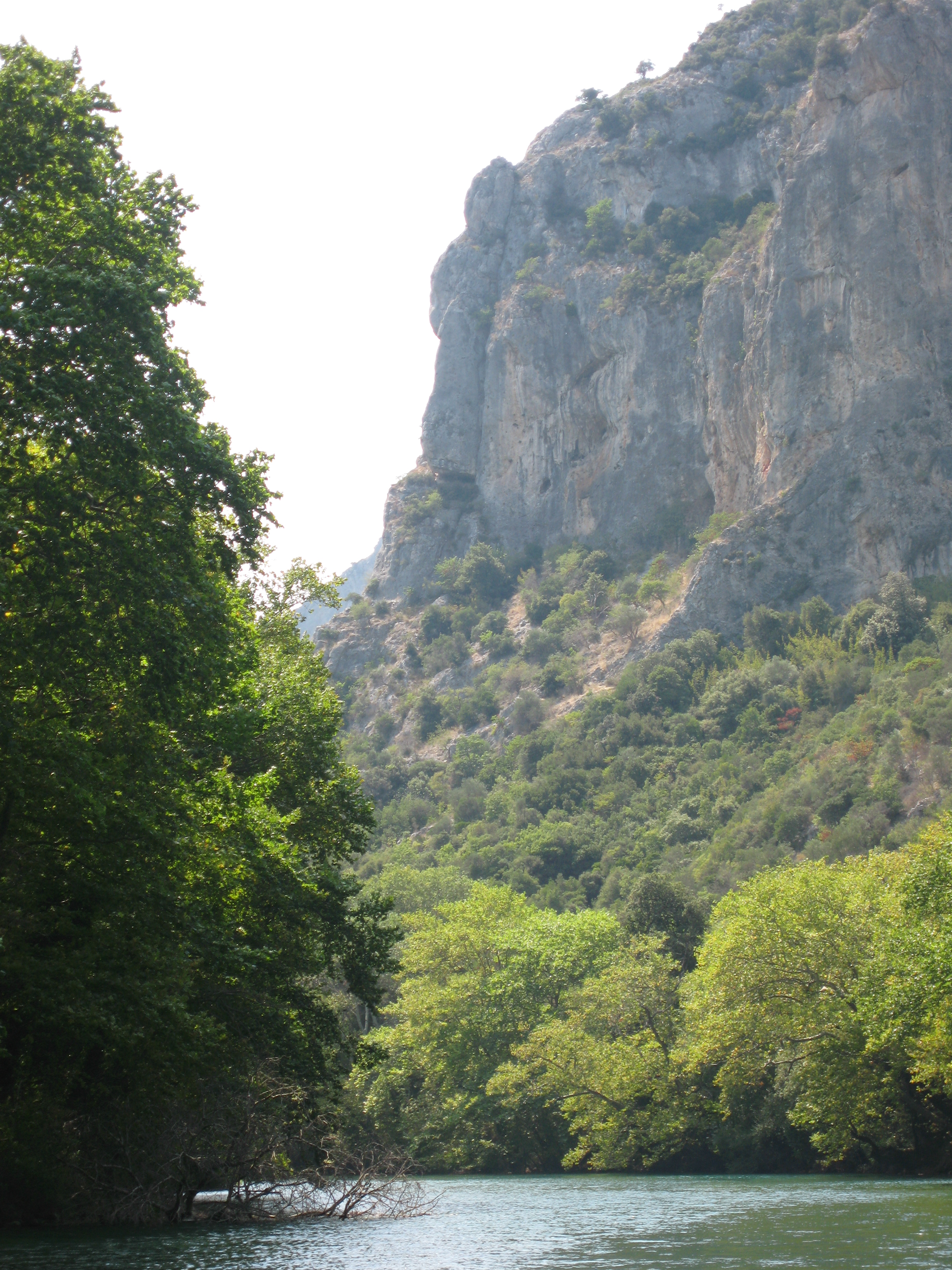 The Gorge of Pineios River (Thessaly), when flowing through the Valley of Tempe. On the cliff the so-called profile of Apollon